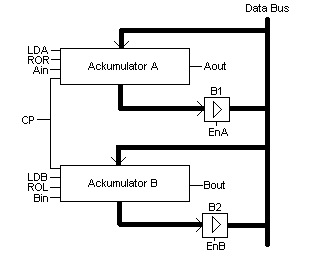 Accumulator